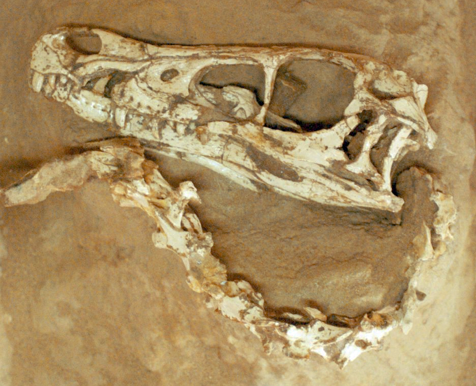 Skull and neck of Velociraptor mongoliensis specimen fossilized in a struggle with Protoceratops andrewsi.